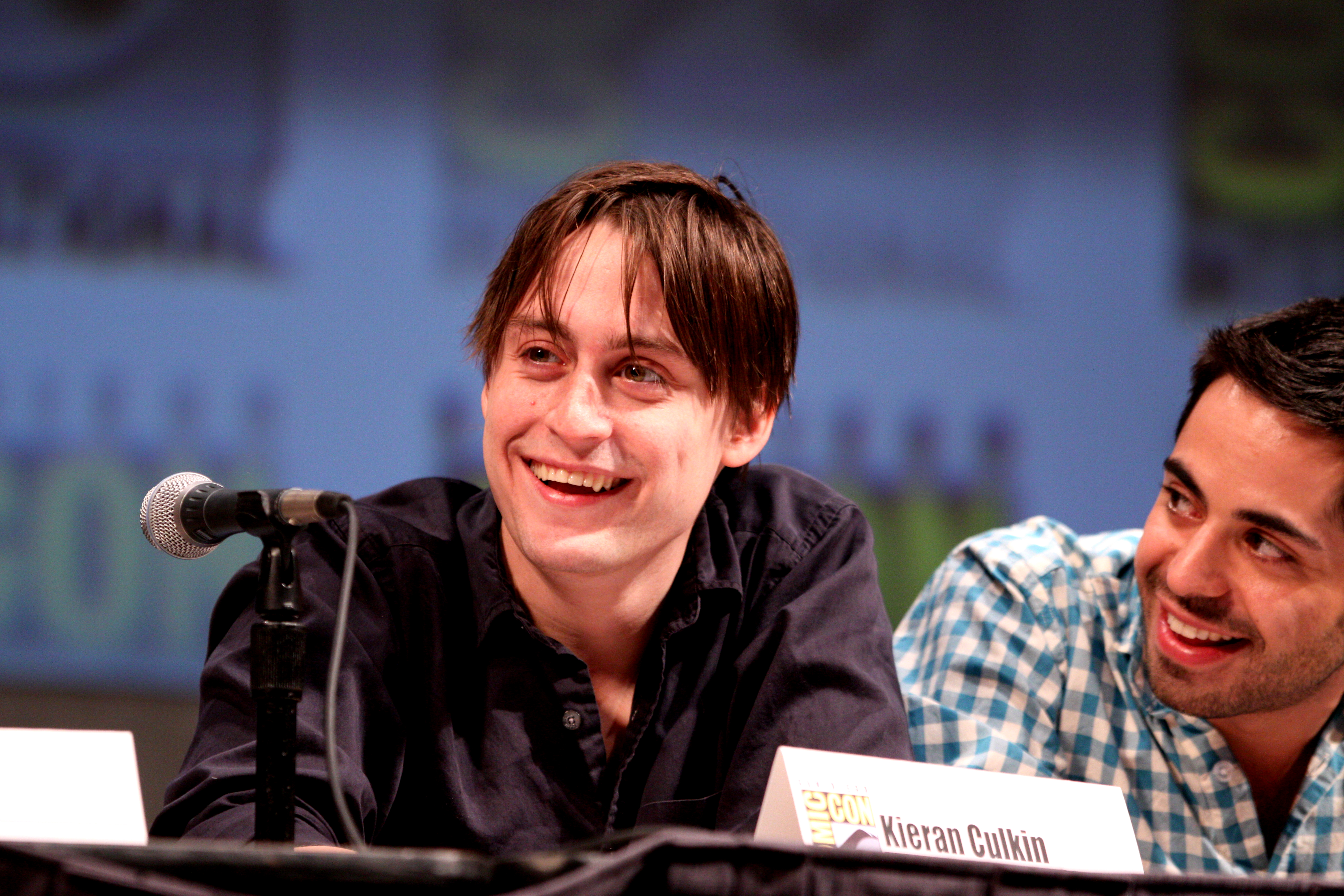 American actor Kieran Culkin on the Scott Pilgrim vs. the World panel at the 2010 San Diego Comic Con in San Diego, California.